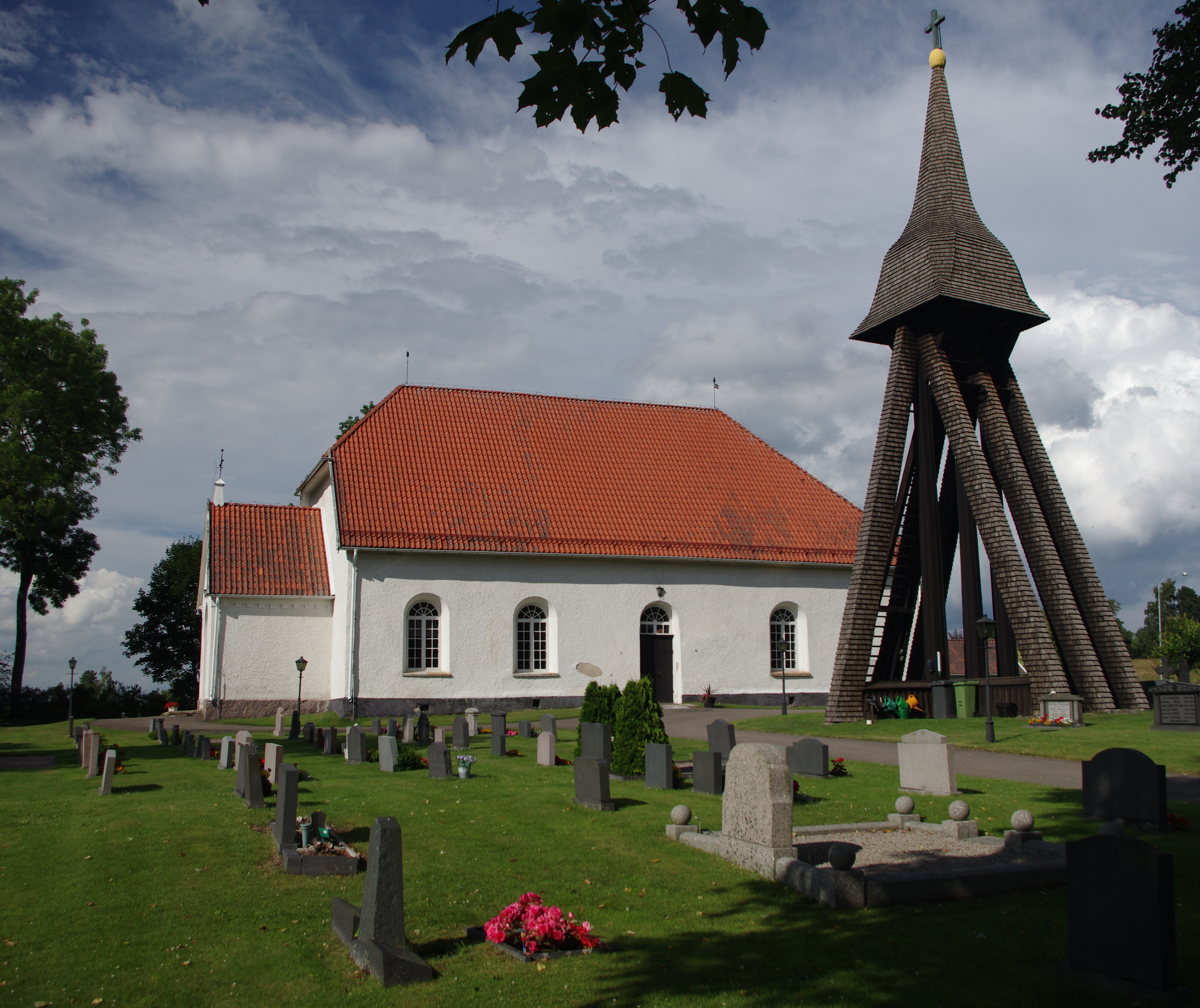 Daretorp church, Tidaholm municipality, Sweden